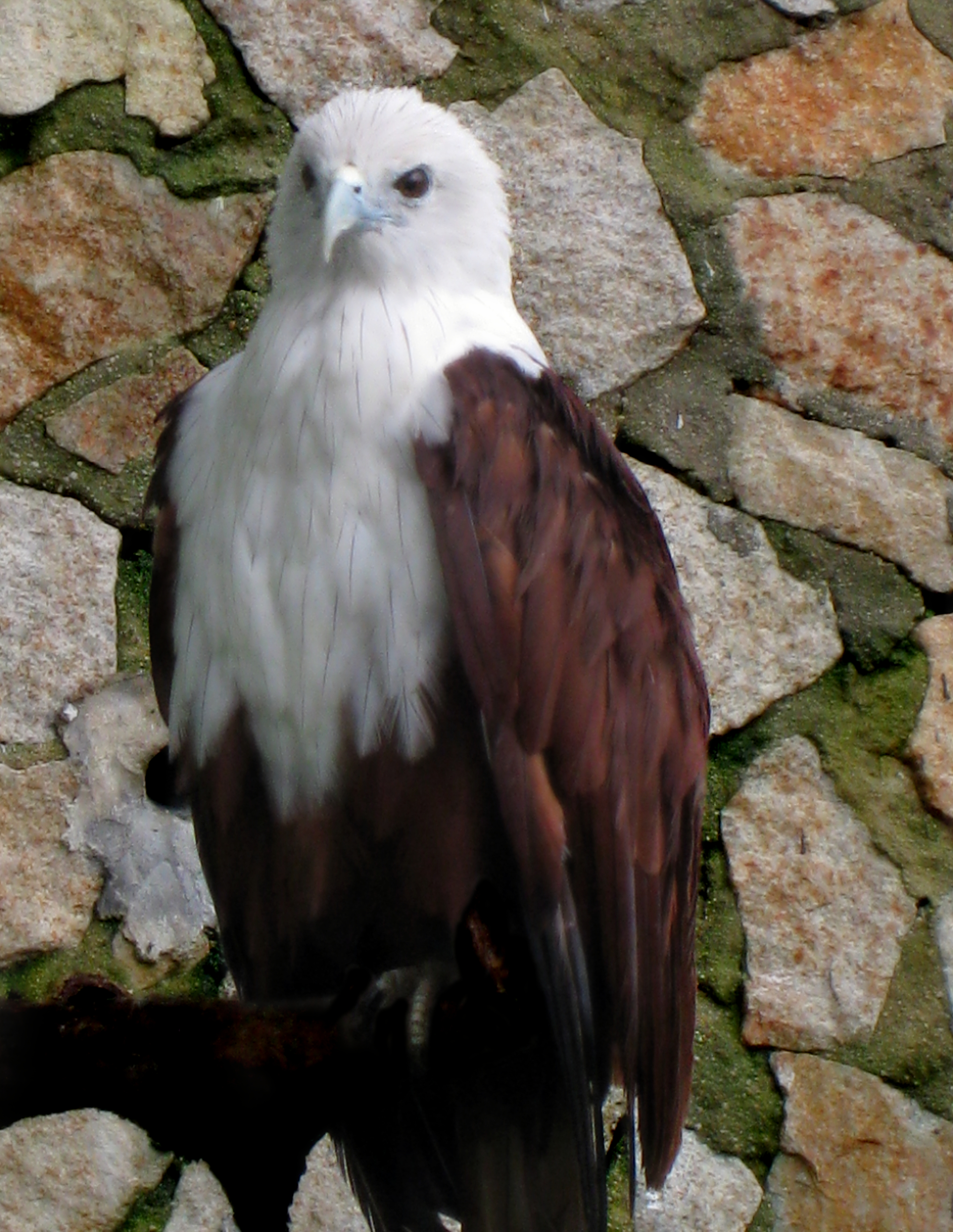 A Brahminy Kite (also known as the Red-backed Sea-eagle) at Jurong Bird Park, Singapore.